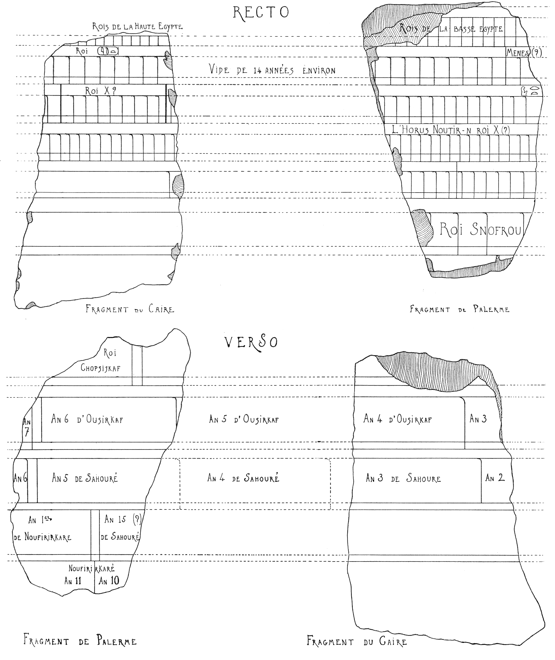 Drawing of the Cairo Stone with the Palerma stone